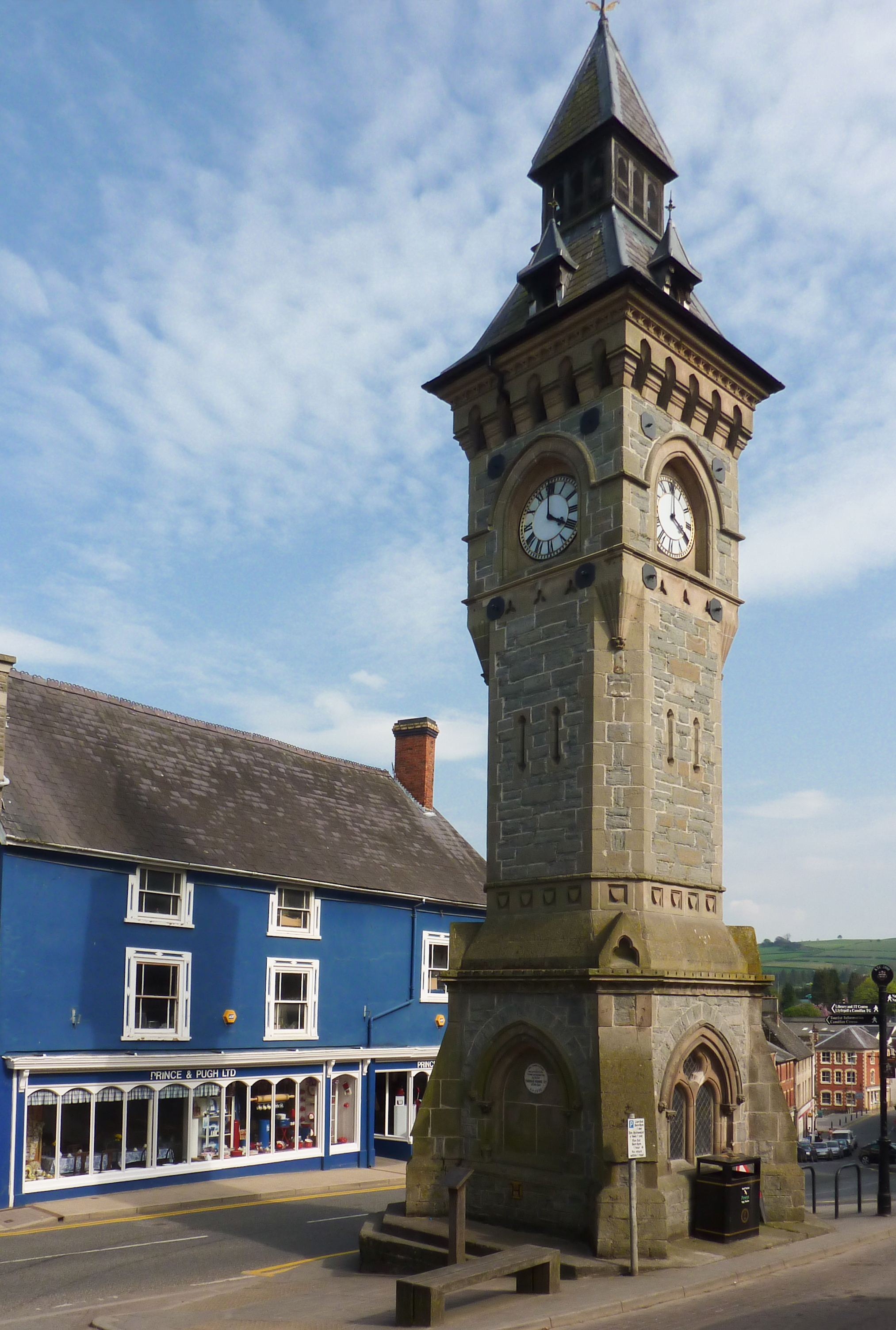 The clock tower, built in 1872, is a central landmark in the town of Knighton, Powys, Wales.